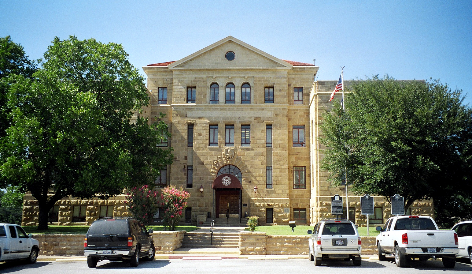 The Palo Pinto County, Texas courthouse located in Palo Pinto, Texas, United States. The Moderne style structure was listed on the National Register of Historic Places on April 17, 1997.